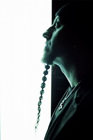 Odadjian's famous beard